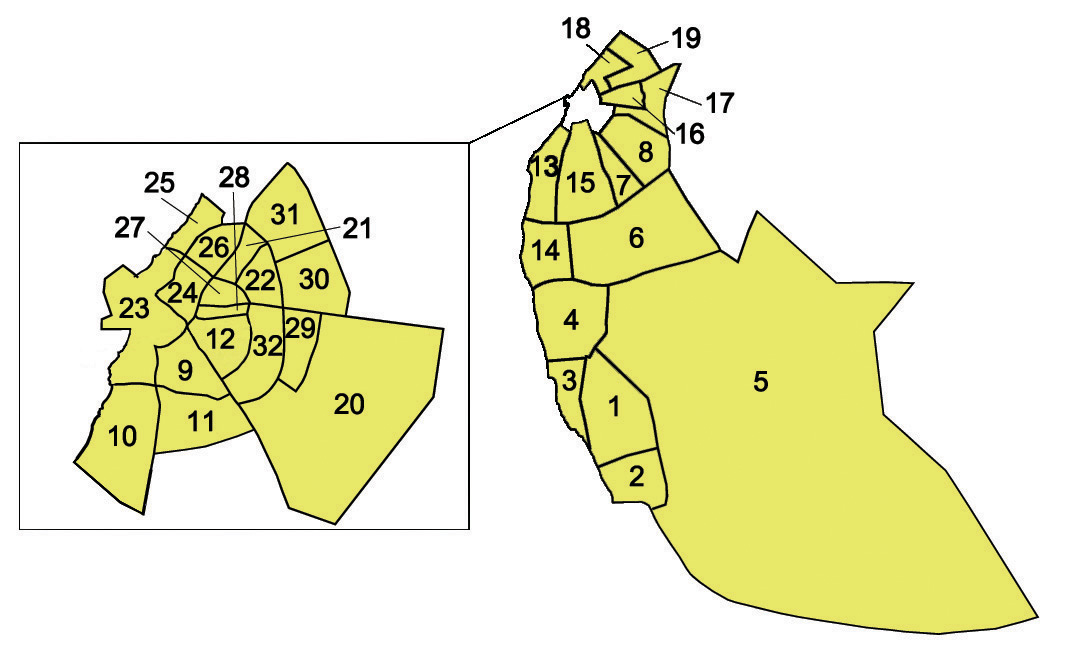 Latest Benghazi Mu'tamarat Divisions as of 2009